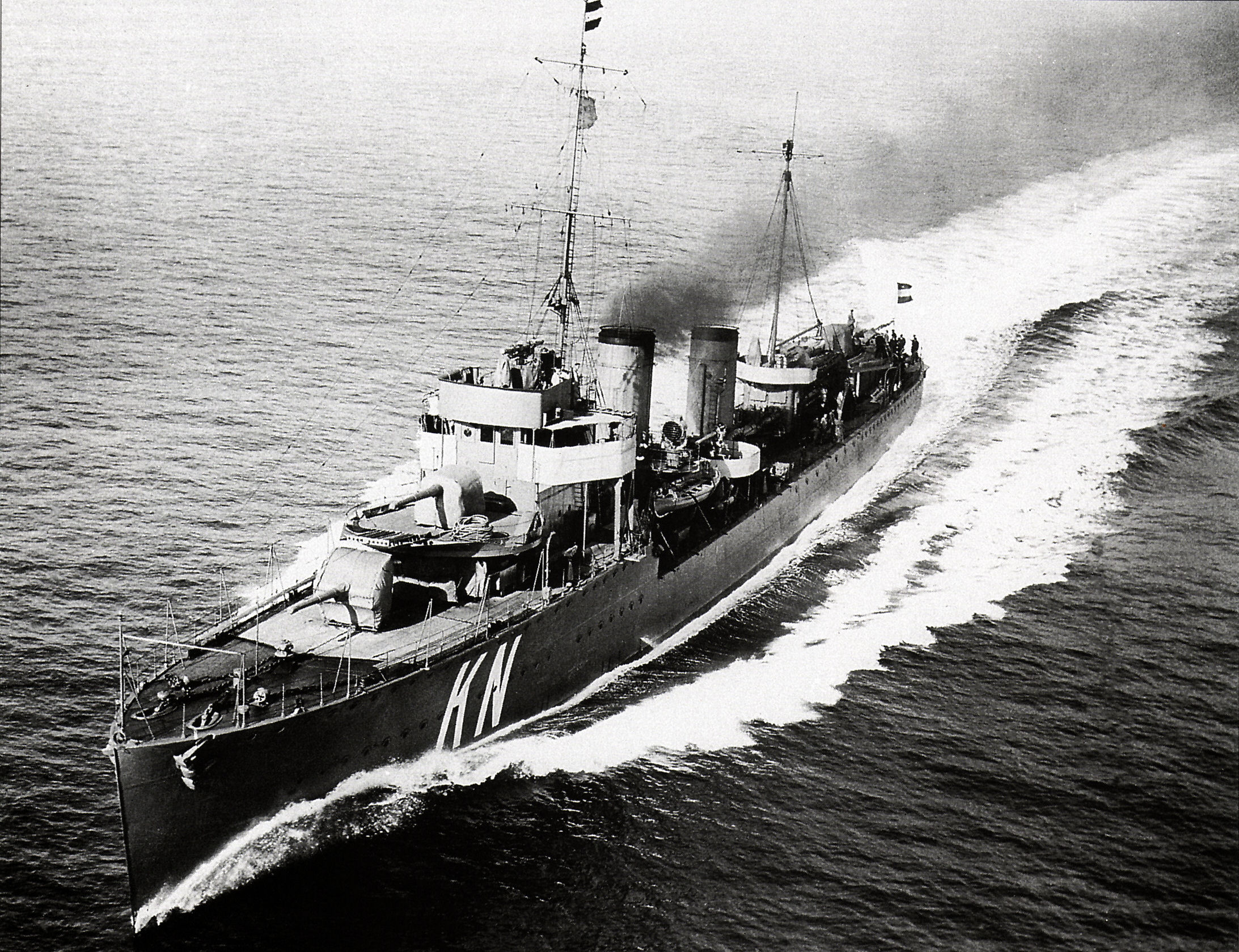 Dutch Amdiralen class Destroyer Kortenaer in the 30s